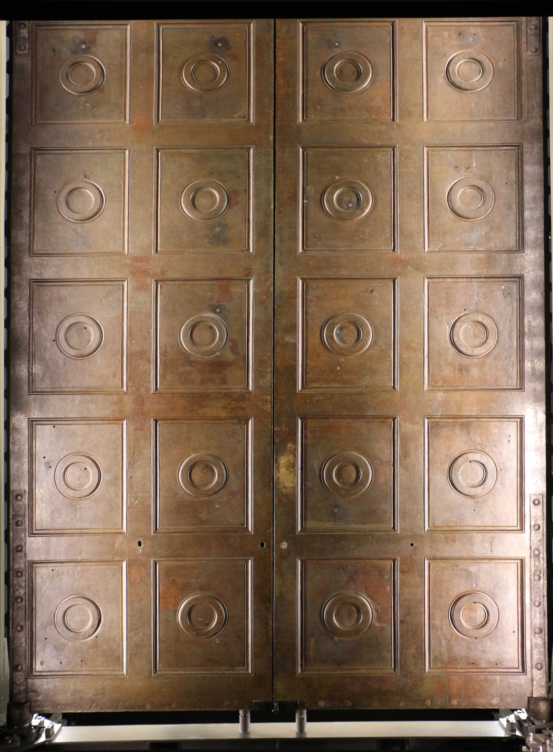 The Gates of Paradise - Reliefs